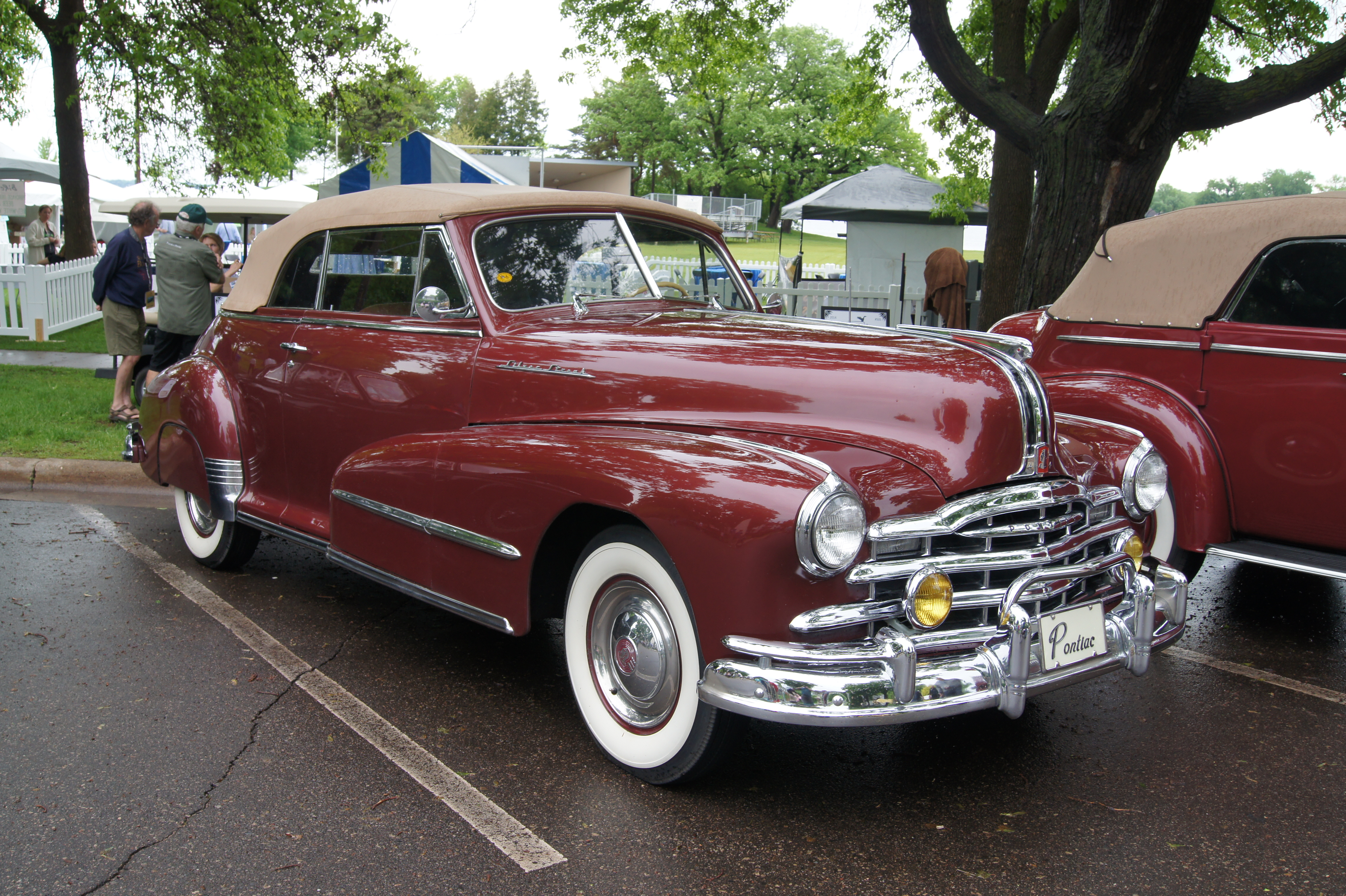 2nd Annual 10,000 Lakes Concours d'Elegance to Benefit Courage Center Foundation June 1, 2014 Excelsior Commons Excelsior Minnesota Thousands of car pictures at the link below